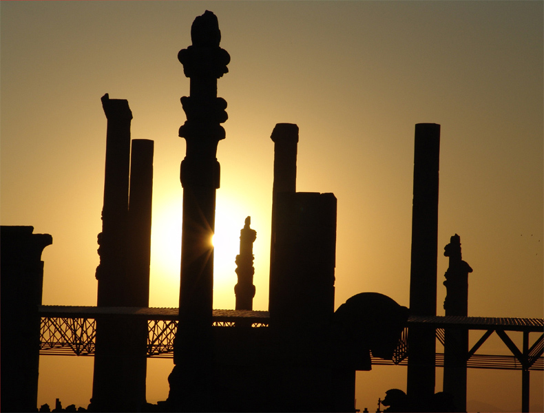 Sunset at Apadana of Persepolis